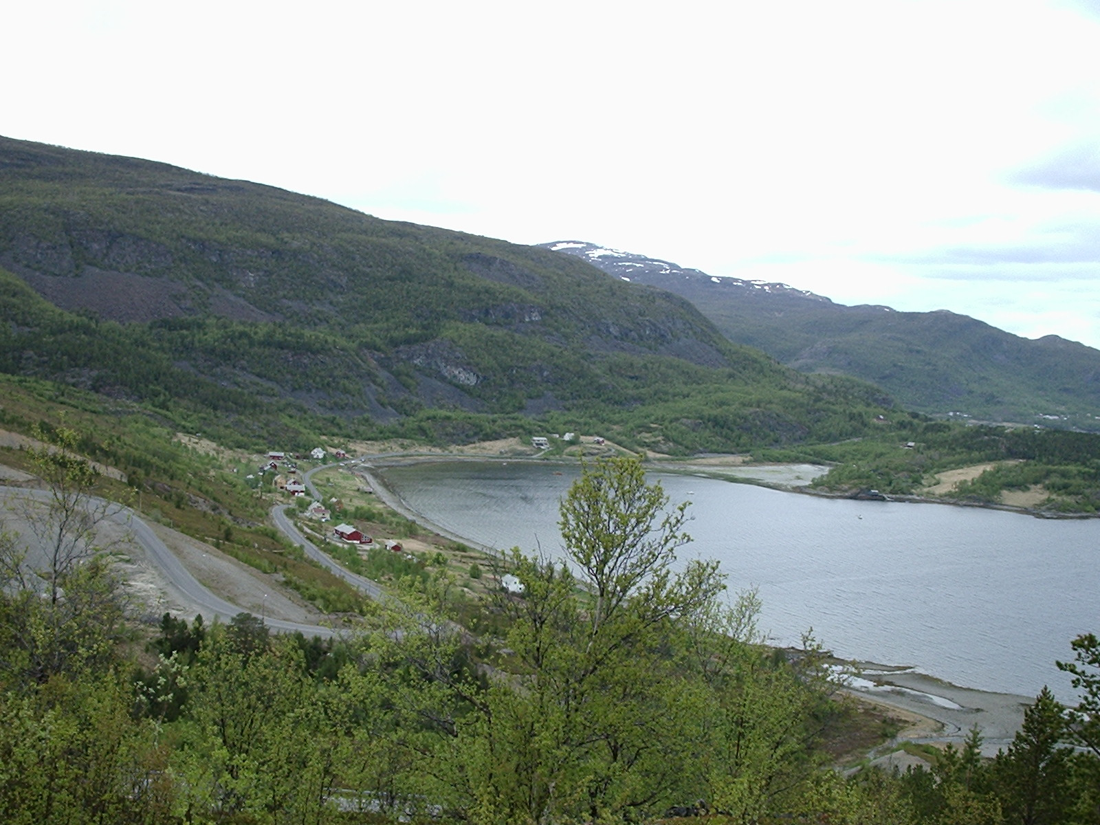 A picture of Kvenvik (Norway)